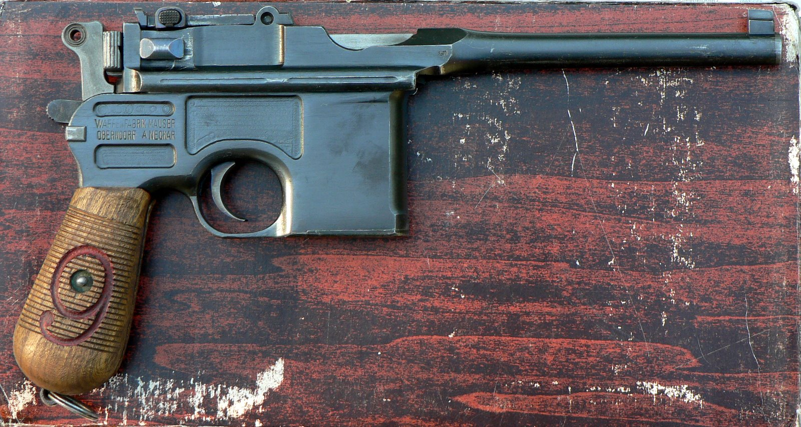 Mauser C96 M1916 "Red 9"